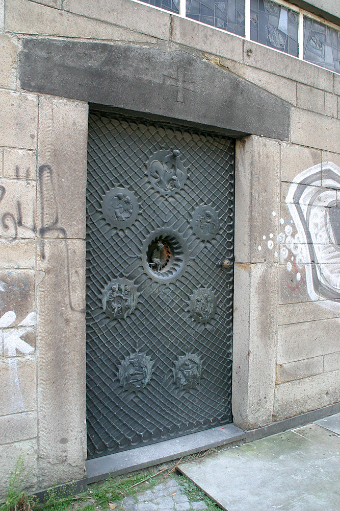 Klein St. Martin, church in Cologne, Germany. Sculptor of the door: Heribert Calleen